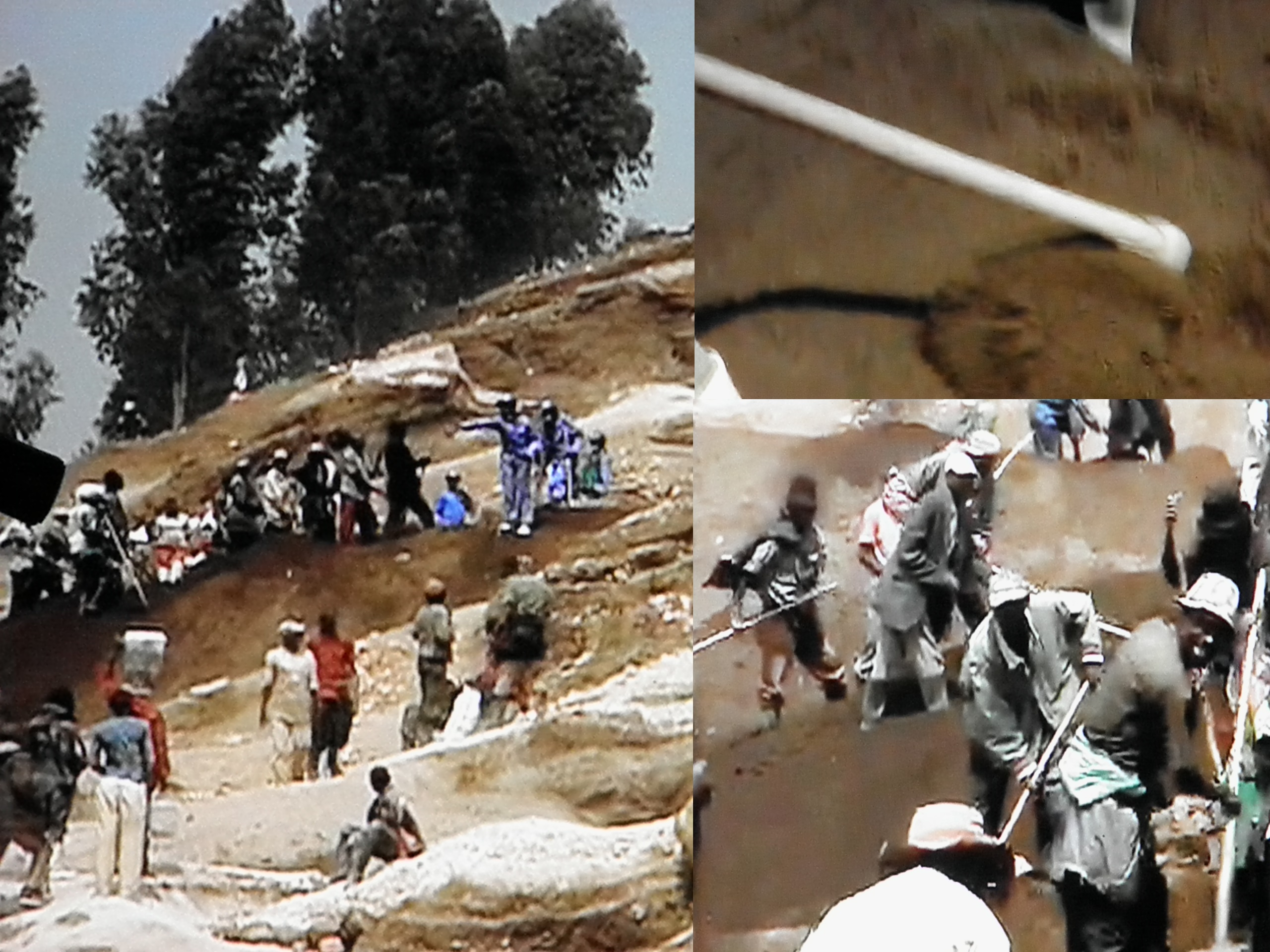 Mine de coltan en Afrique centrale